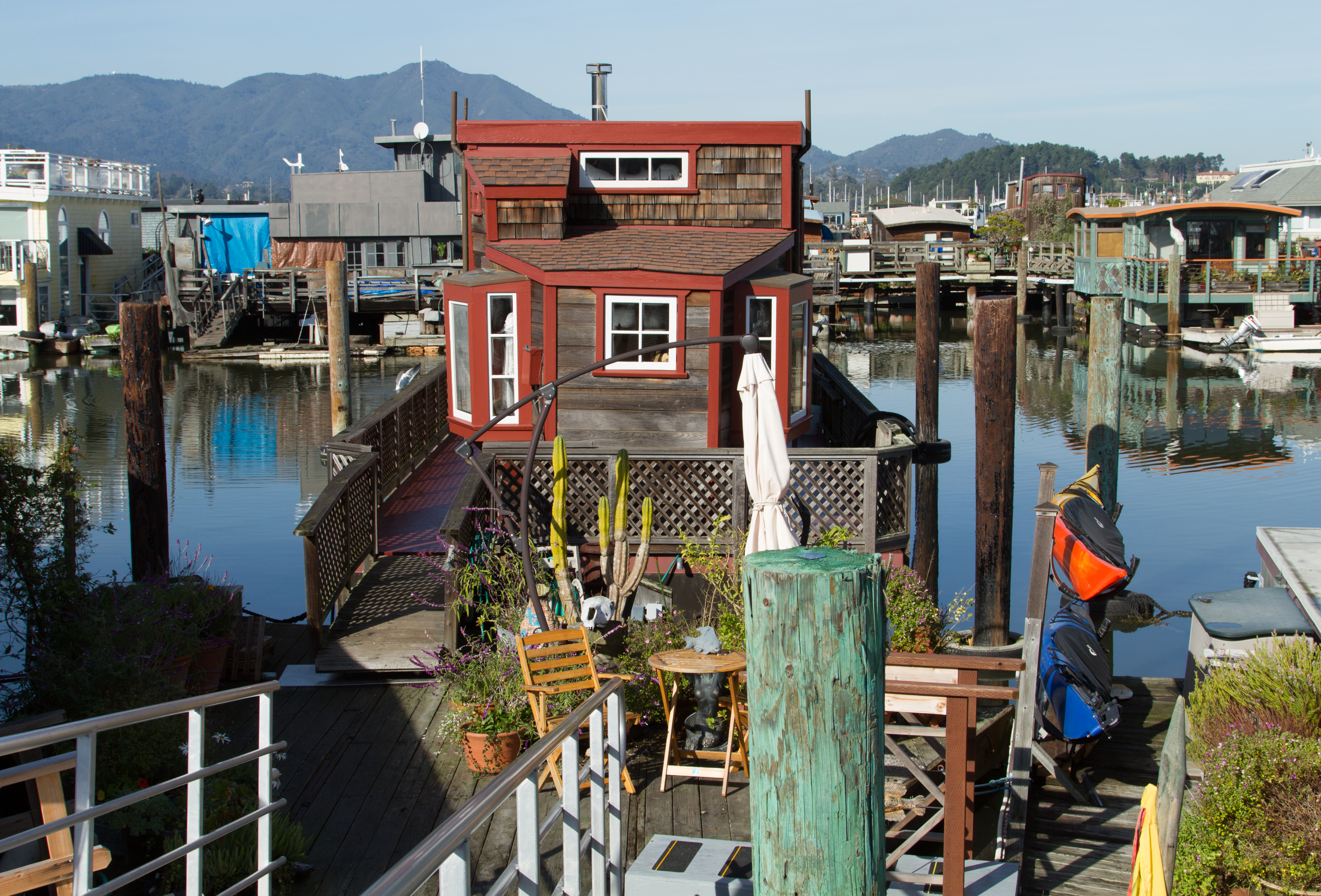 Houseboat community in Sausalito, Marin County, California.